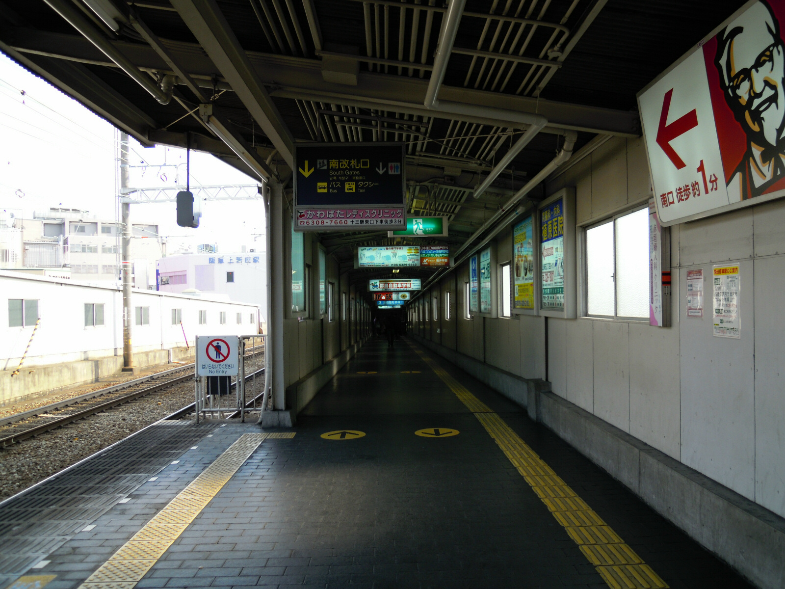 Hankyu Kamishinjo station platform